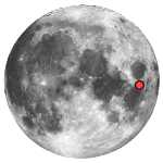 Description: Location of the Apollonius crater on the Moon. The marker also shows the proximity of the Ameghino, Cartan, Townley, Abbot, Daly, Bombelli, and Petit craters. Source: This is a modified version of a photo obtained from the NASA Planetary Photojournal. It was modified by RJHall. Width: 150 pixels Height: 150 pixels